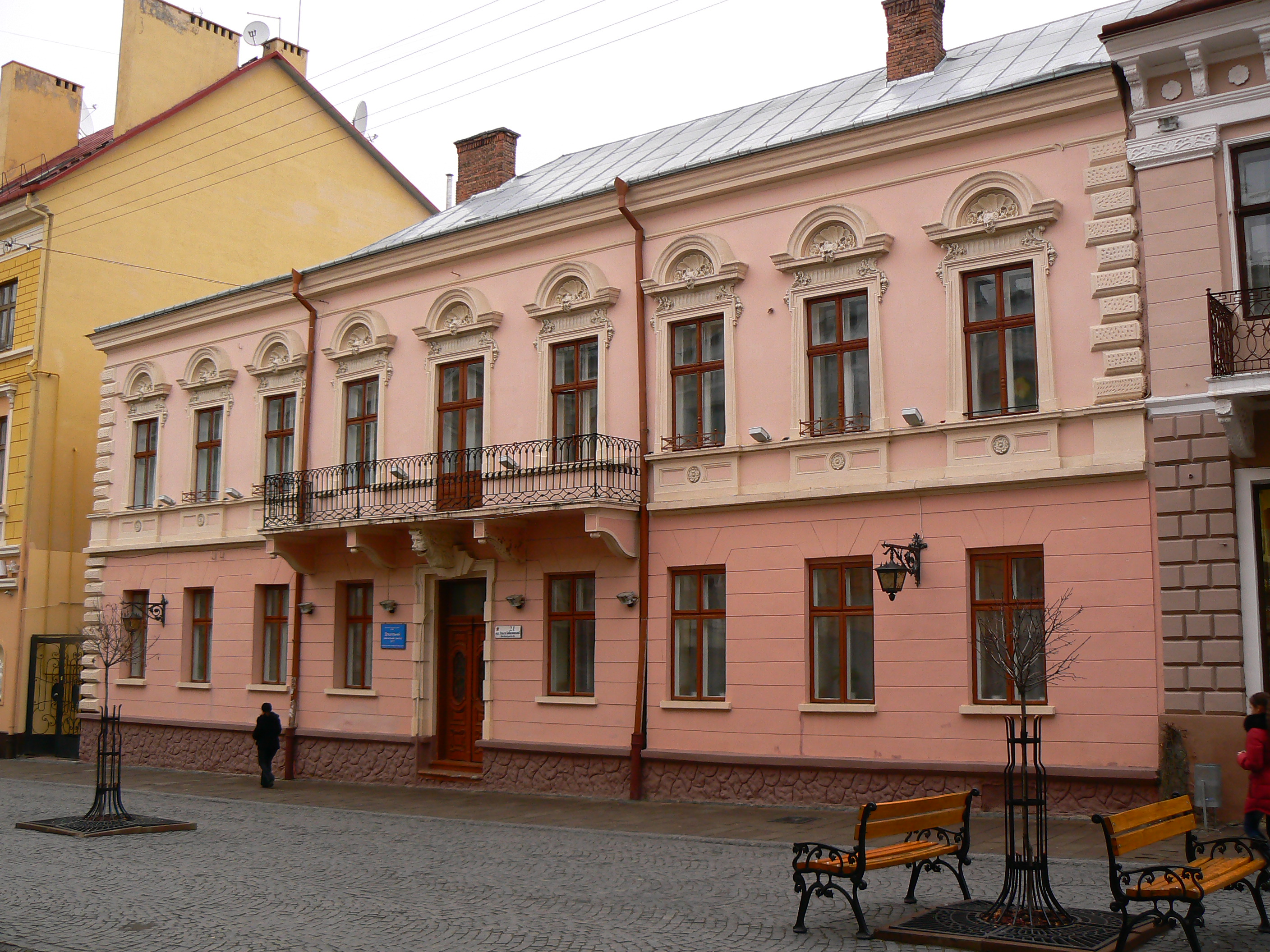 Кобилянської, 21